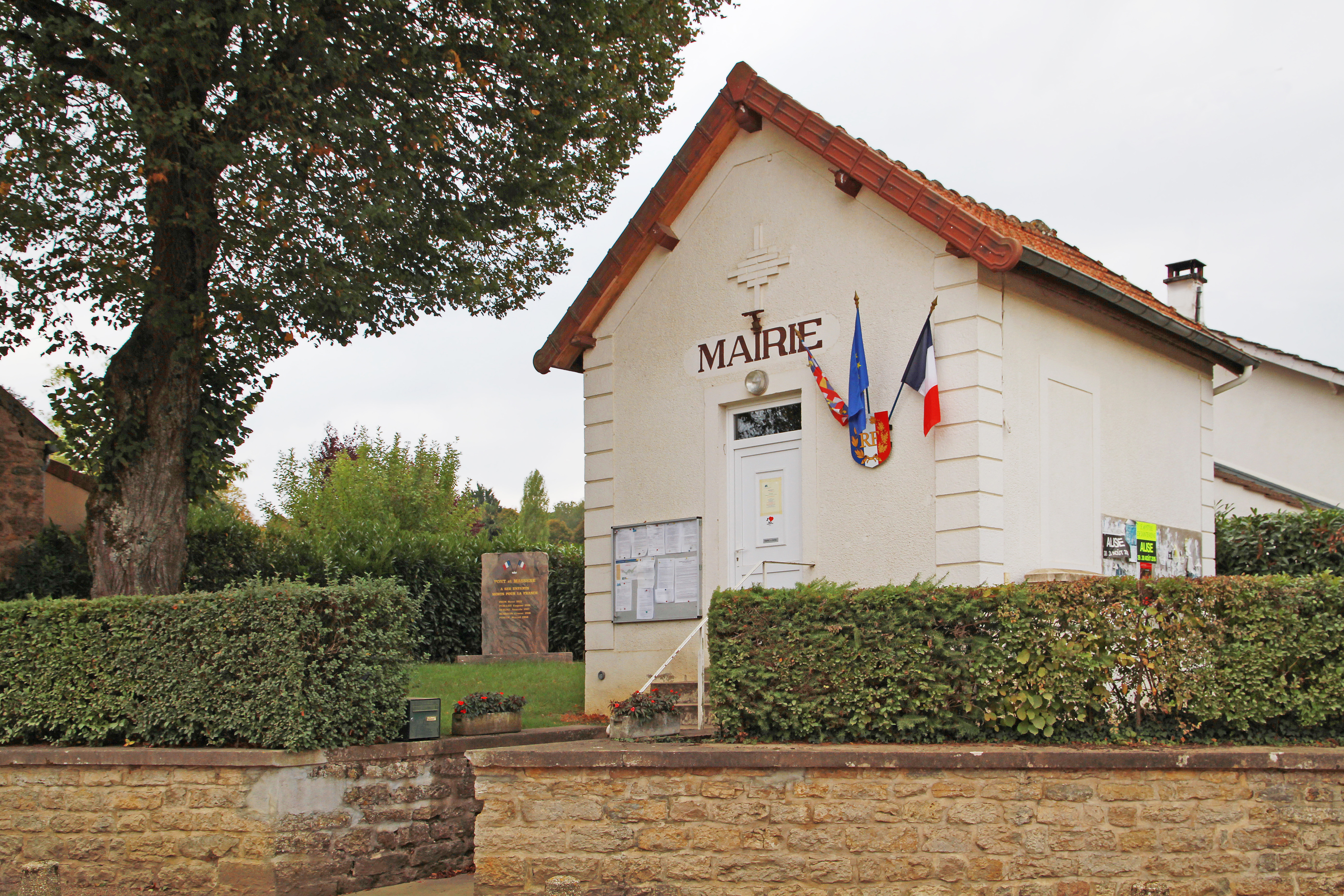 Pont-et-Massène town hall